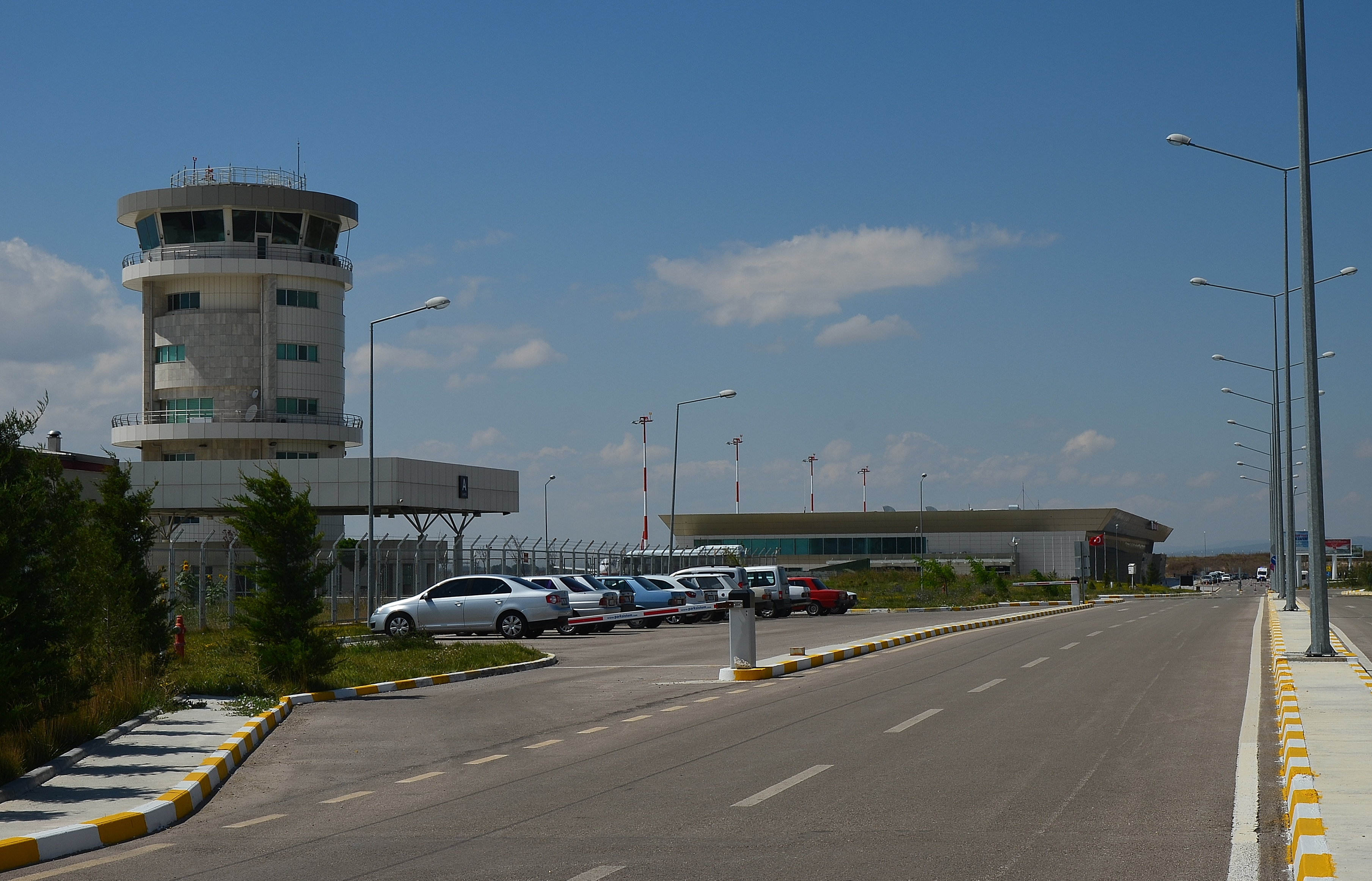 Control tower (left) and terminal building (right) of Zafer Airport in Kütahya, Turkey